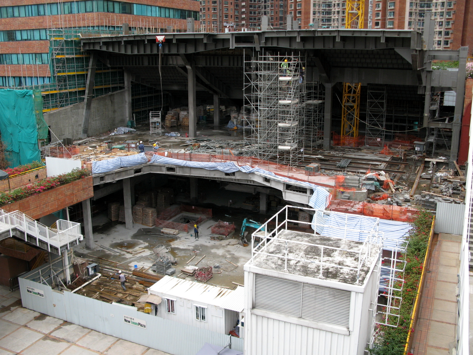 新城市廣場 UA戲院重建地盤 New Town Plaza UA Cinema Redevelopment Site